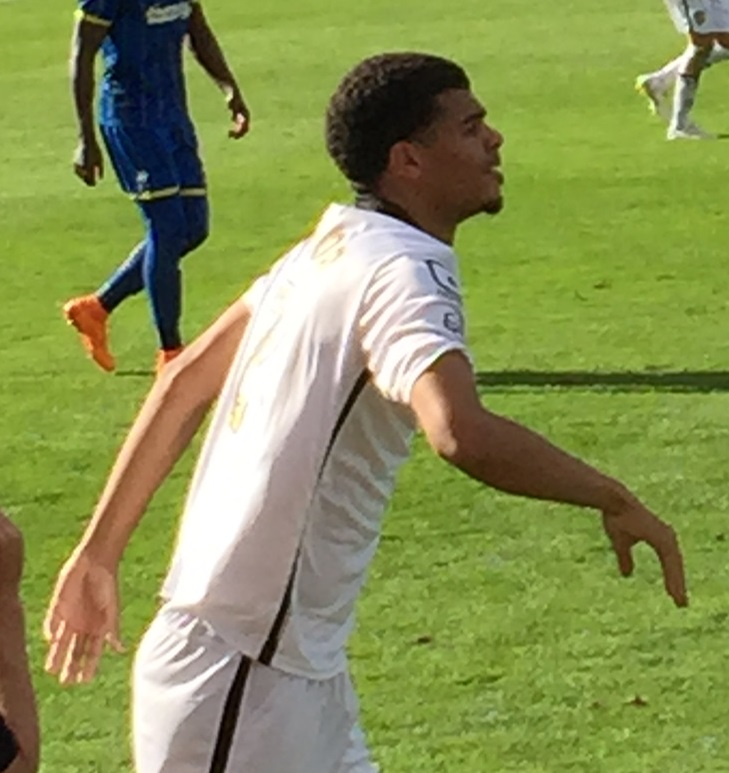 Full-back Mawouna Amevor playing for Notts County against AFC Wimbledon during the League Two match at Kingsmeadow on 19 September 2015.